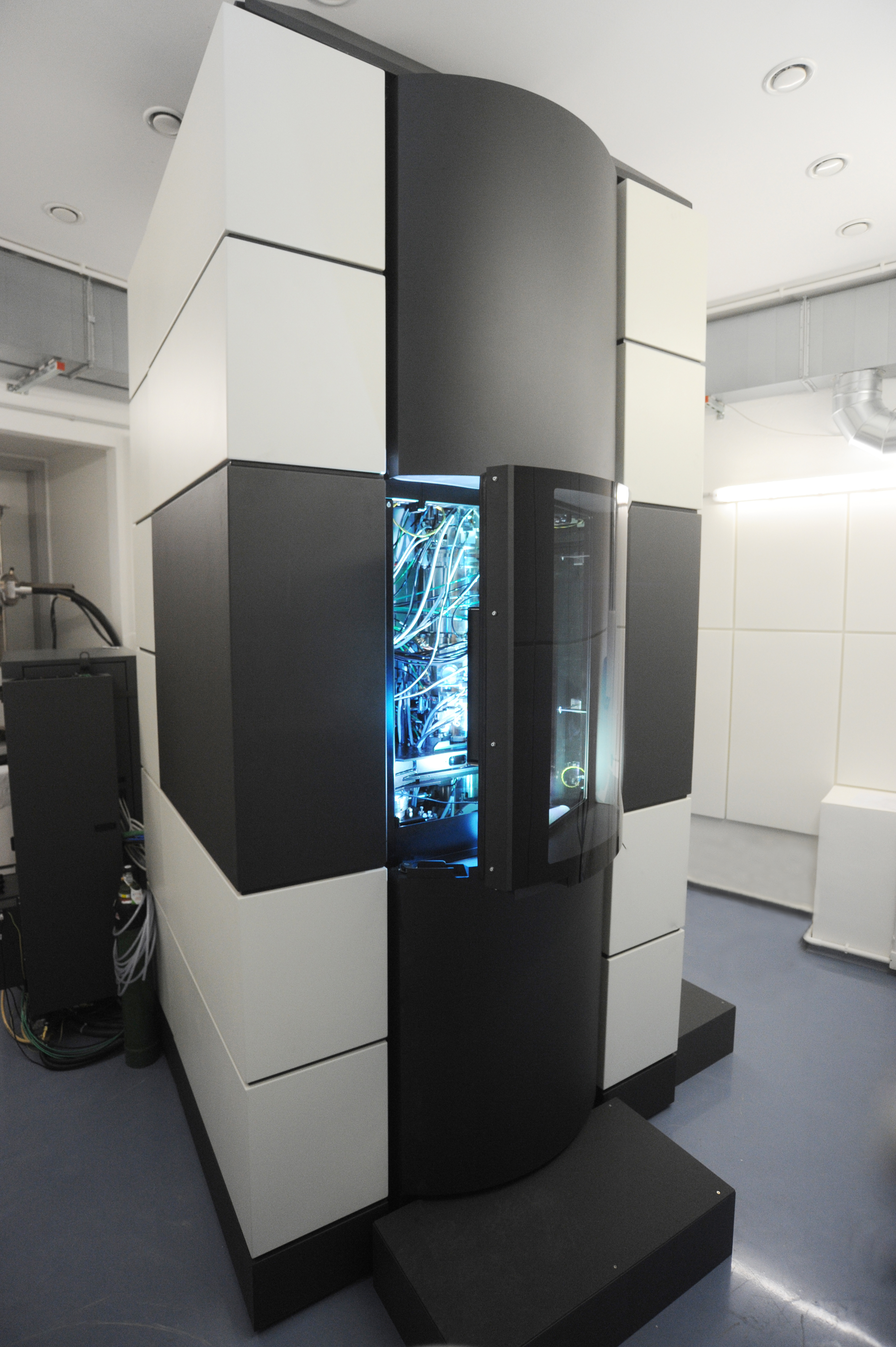 The ASTEM is an FEI Titan³ G2 60-300.